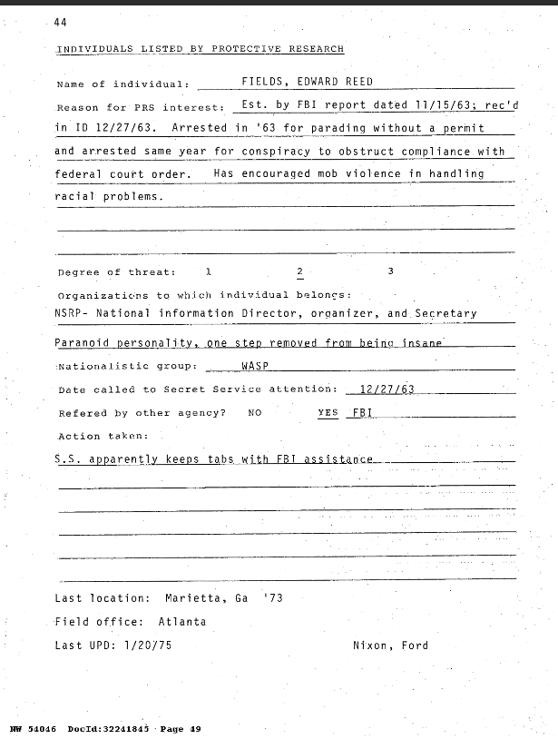 After the JFK assassination and the JFK records release in 2017. It was revelased the FBI interviewed the founder of the NSRP Edwards Fields and found him one step removed from insanity in 1963.